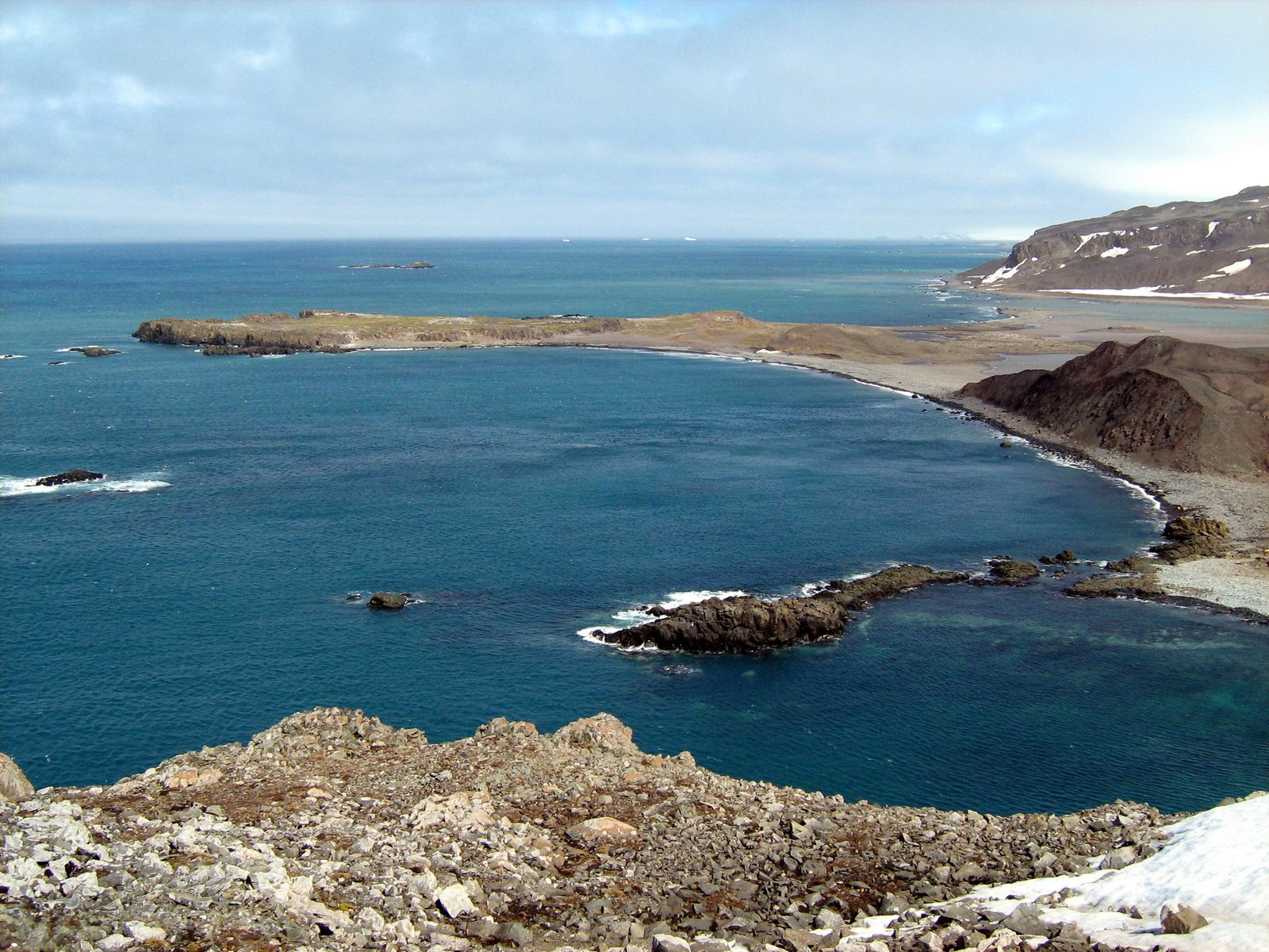 Rondel and Patelnia Peninsulas (King George Island)